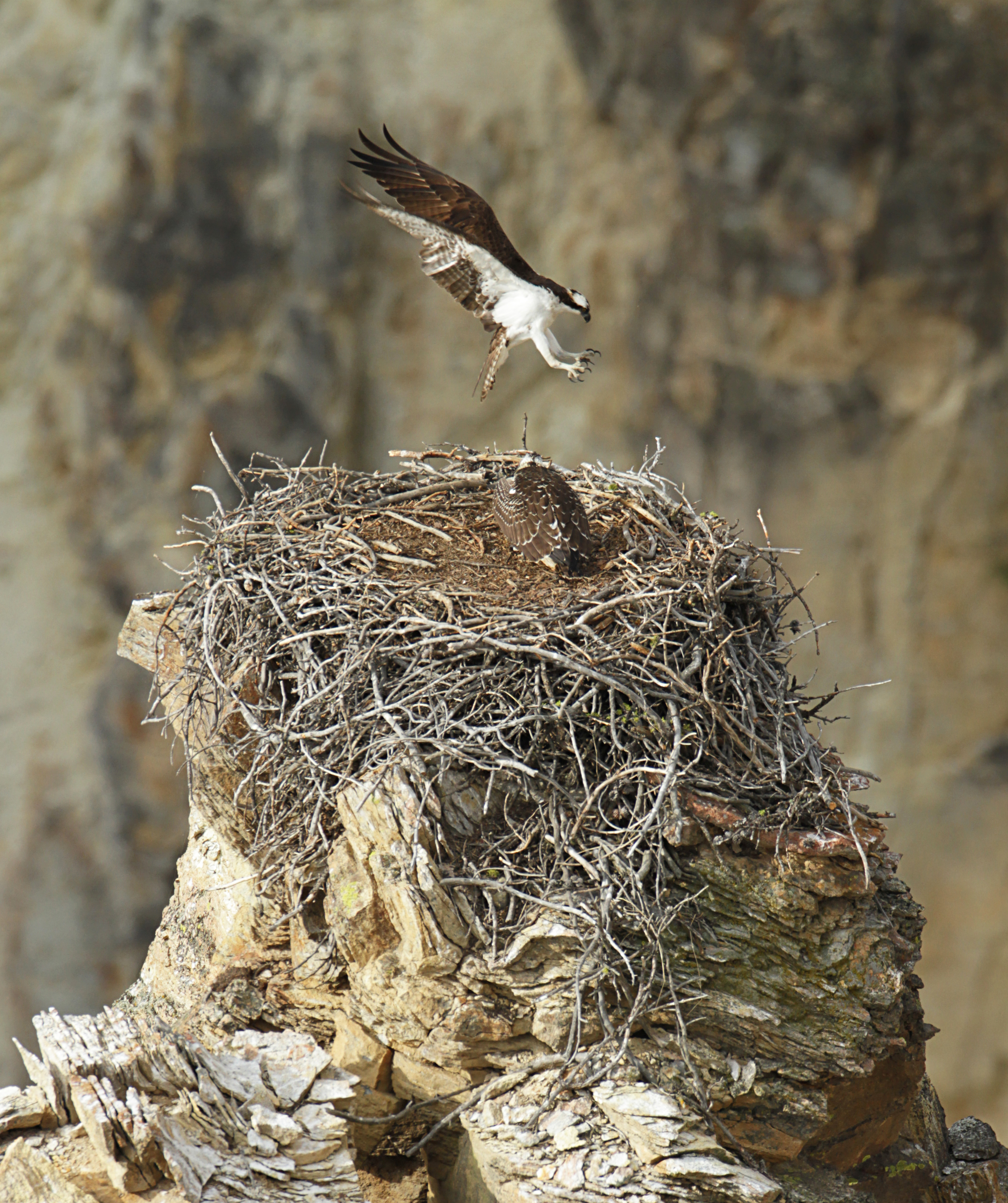 Adult osprey coming into nest at the Grand Canyon of the Yellowstone; Jim Peaco; September 3, 2015; Catalog #20335d; Original #IMG_2580